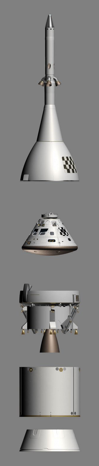 JSC2009-E-145318 (June 2009) --- This engineering model is the first of two showing one-dimensional representations of two sides of the various components of the Orion crew exploration vehicle. From the bottom are a spacecraft adapter, service module, crew module and launch abort system. 607 version. Photo credit: NASA